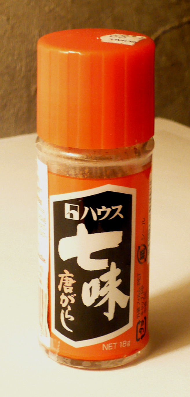 A jar of commercially produced shichimi togarashi (a Japanese condiment), manufactured by House Foods Corporation of Chiyoda-Ku, Tokyo, Japan. Photo taken in Kent, Ohio with a Panasonic Lumix digital camera (model DMC-LS75). Ingredients: red pepper, Japanese pepper, black sesame seed, yellow sesame seed, roasted hemp seed, orange peel, roasted poppy seed, seaweed.